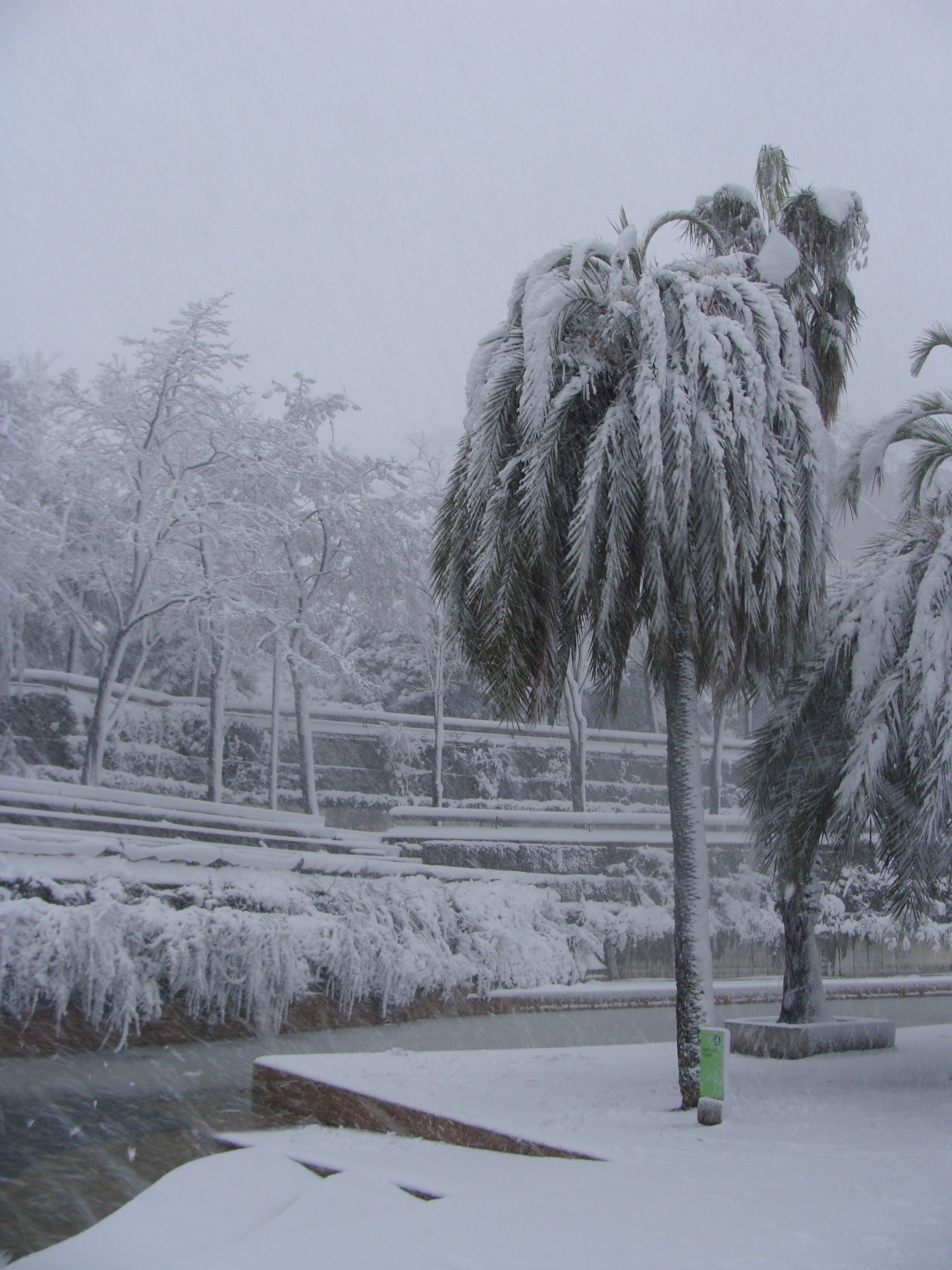 Parc de la Creueta del Coll (El Coll, Gràcia, Barcelona) during the snow day of Barcelona of 8th march, 2010.